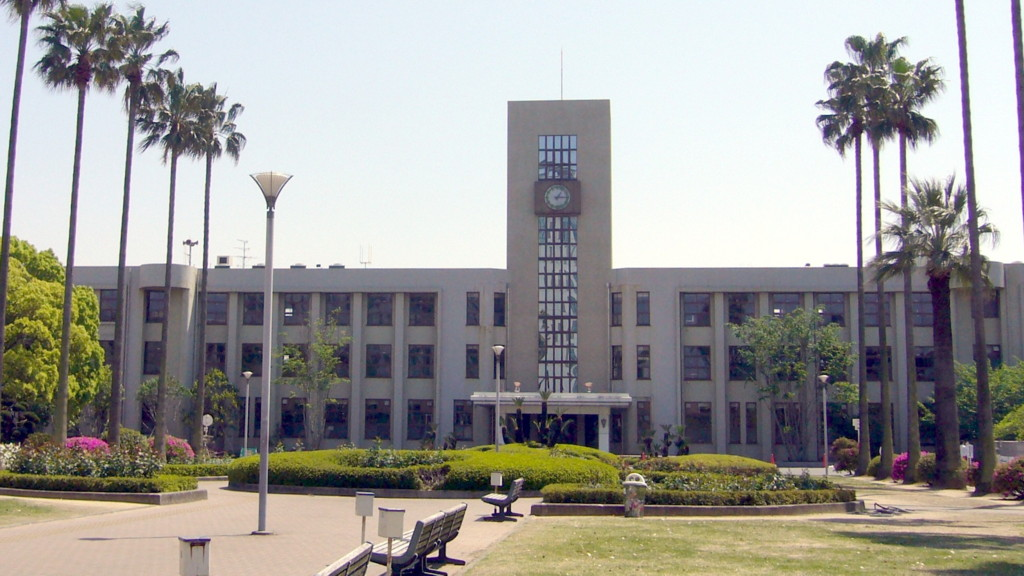 The Building No.1 of Osaka City University. Built as the main building of Osaka University of Commerce in 1934. Located in Sumiyoshi-ku, Osaka City, Japan. The photograph was taken in May 2006 by the original uploader.